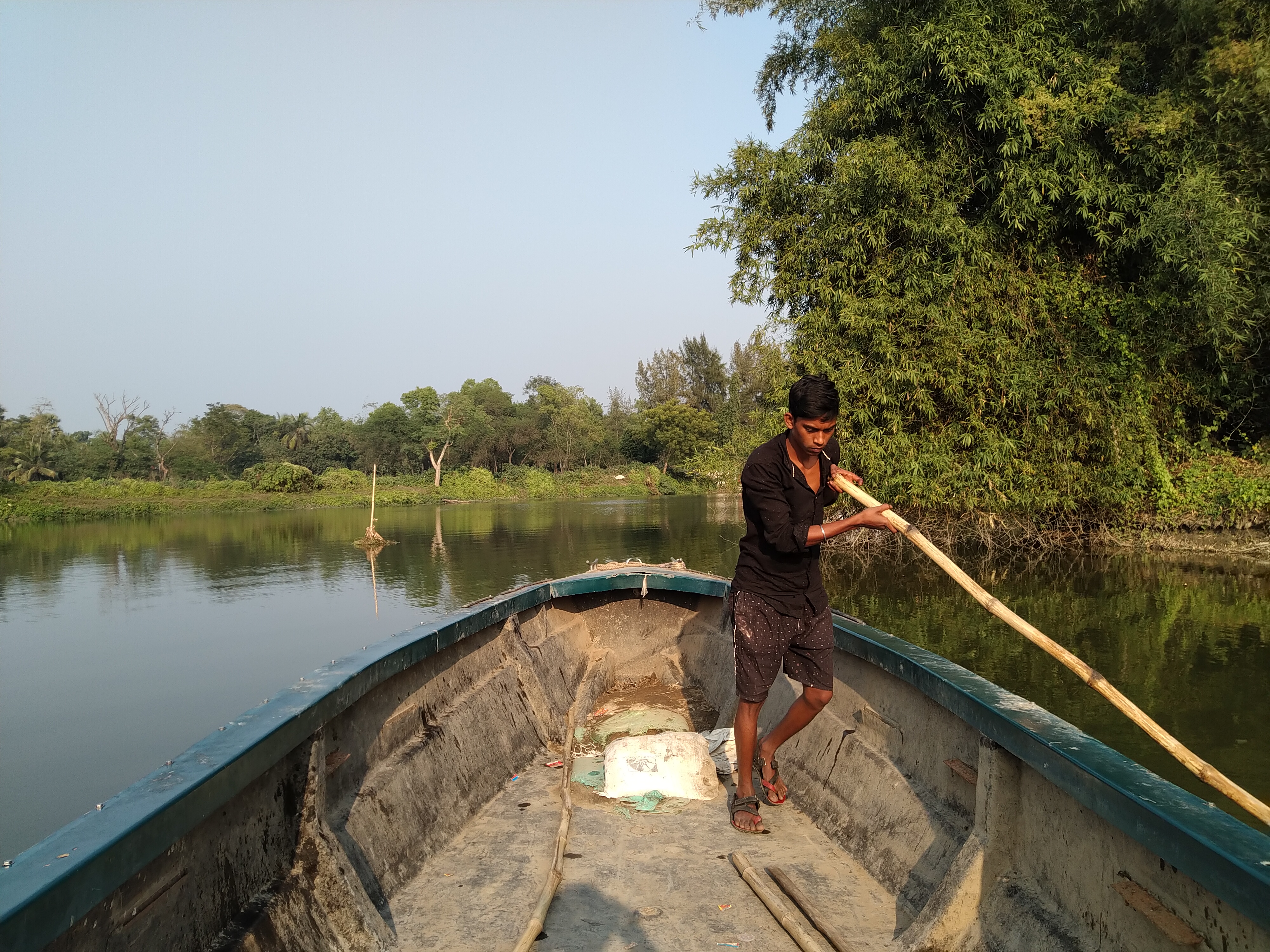 Moyna Garh island at Purba Medinipur district in West Bengal